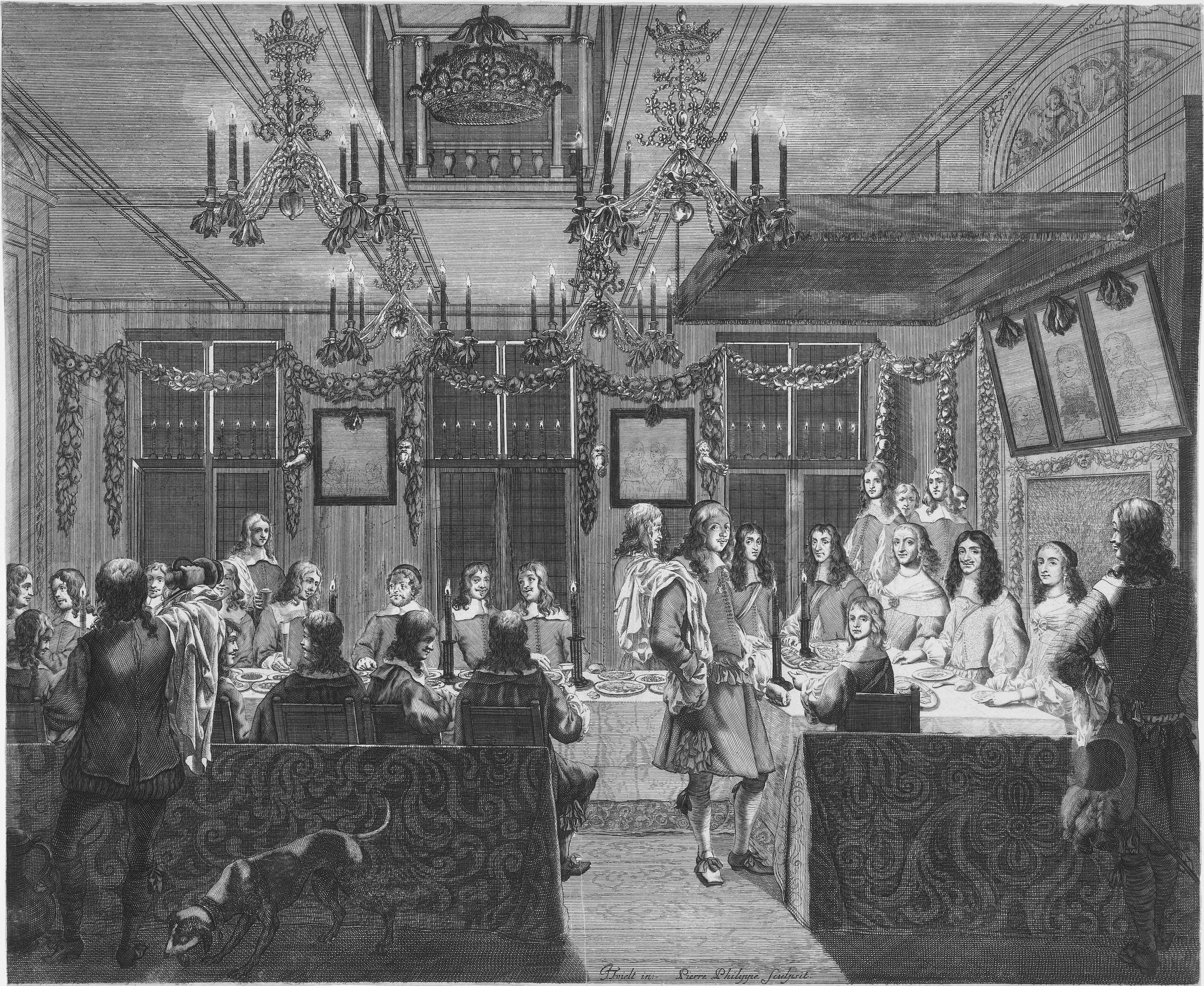 Banquet by candlelight for the English King Charles II in the Mauritshuis in The Hague, May 30, 1660, presented by the States of Holland. Episode during his stay in exile in the Netherlands. The king sits on the right between his aunt Elizabeth, exiled Queen of Bohemia, and his sister Mary Henrietta Stuart, Princess of Orange. In the foreground a young Prince William III of Orange, who later became stadtholder of the Netherlands and King of England, Scotland and Ireland.